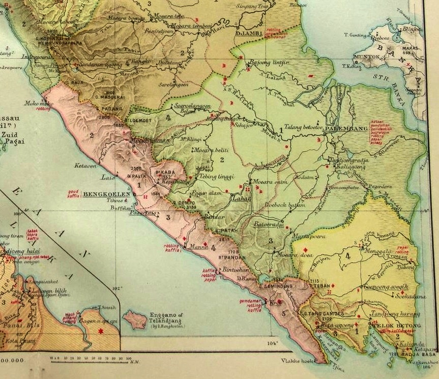 Detail of a map of Southern Sumatra, then part of Dutch East Indies, from the De Grote Winkler Prins Encyclopedia published in 1910. The Residency of Bengkoelen (in pink) corresponds to the territory of British Bencoolen (1685-1825), ceded to the Netherlands by the Anglo-Dutch treaty of 1824. The two British outposts of Natal and Tapanuli, located far away on the coast of northwestern Sumatra, were not part of the Residency.